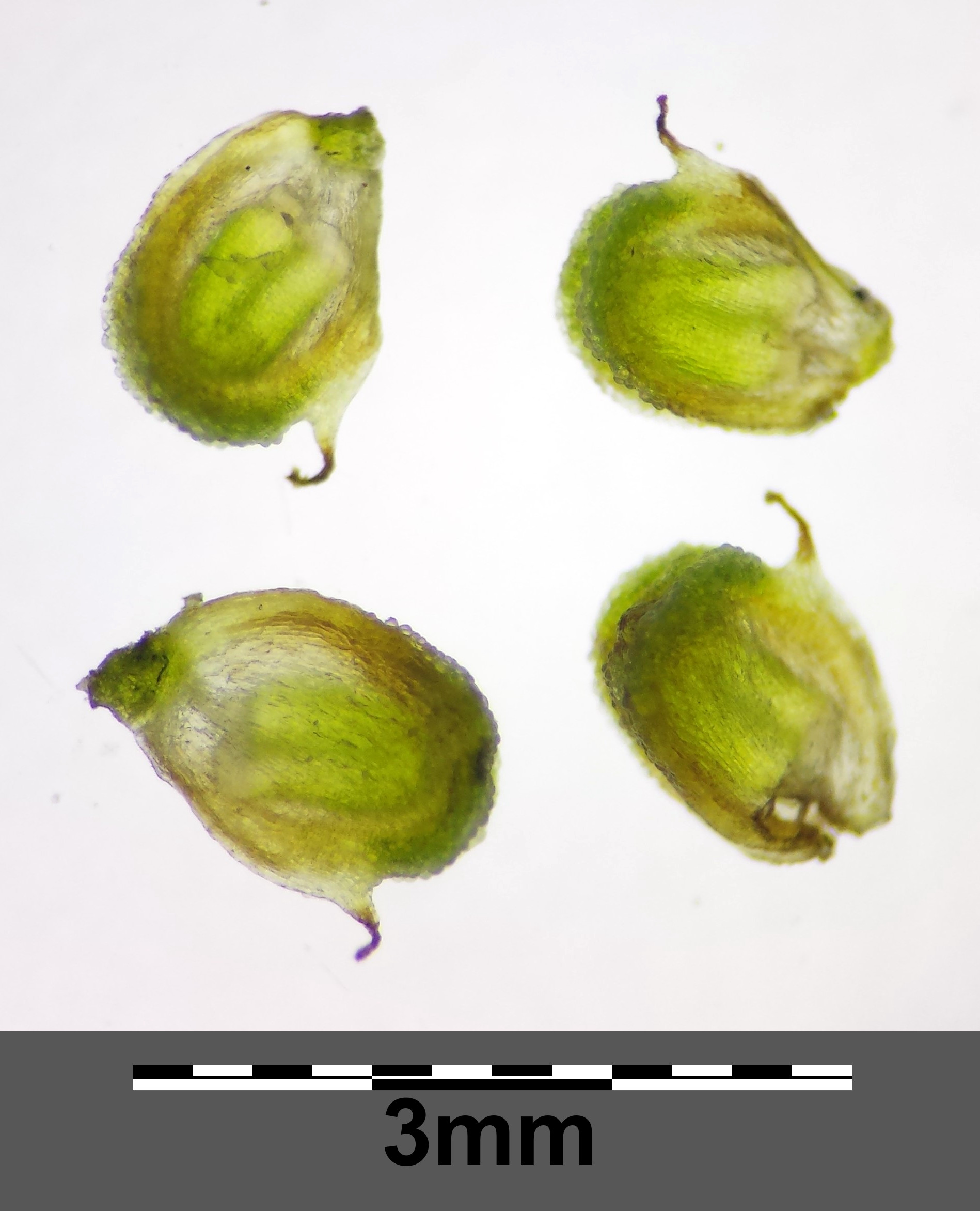 Fruitlets (with background light) Taxonym: Alisma lanceolatum ss Fischer et al. EfÖLS 2008 ISBN 978-3-85474-187-9 Location: Rohrlusswiesen/Mitterluss near Gattendorf, district Neusiedl am See, Burgenland, Austria - ca. 130 m a.s.l. Habitat: wet meadows